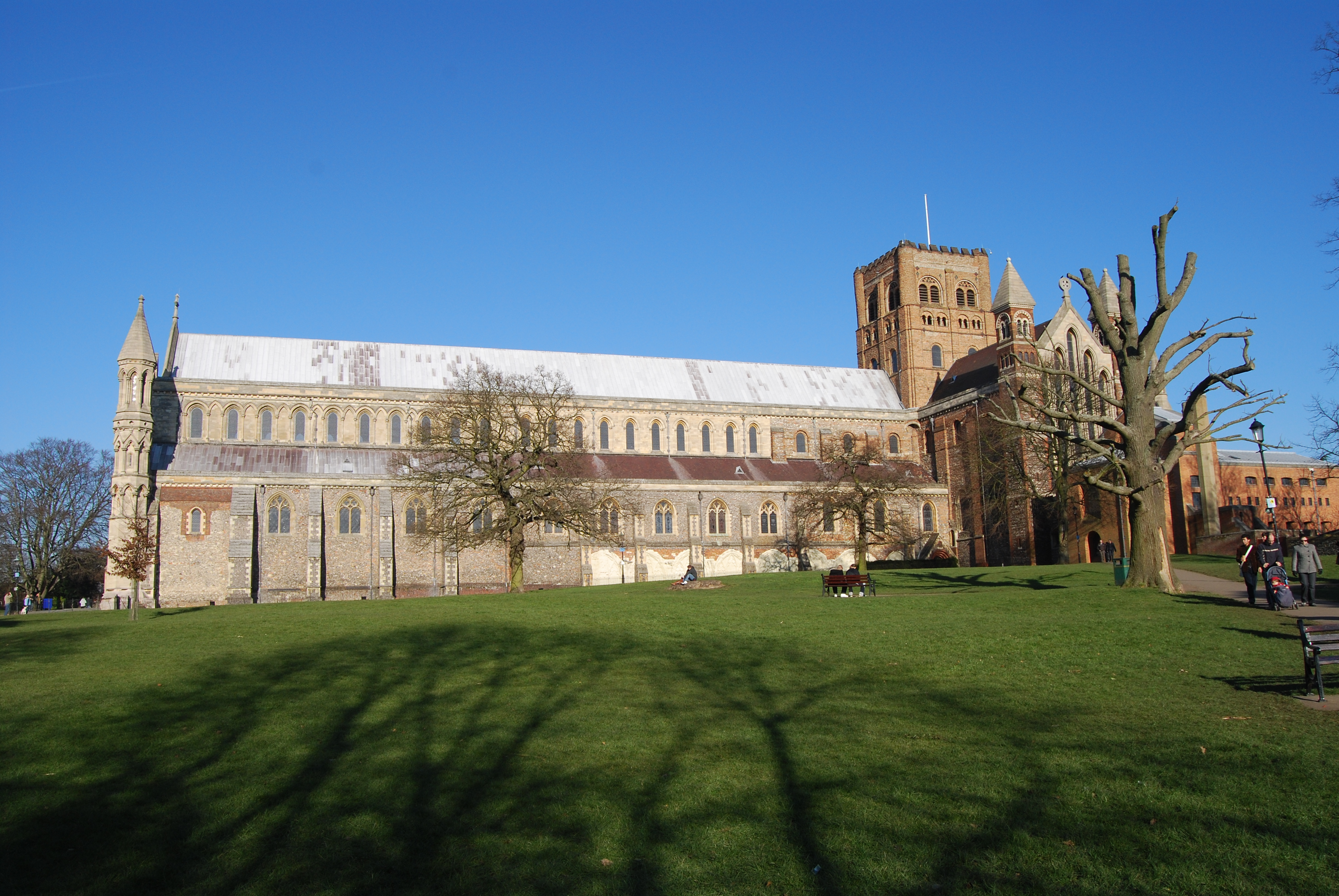 St Albans Cathedral